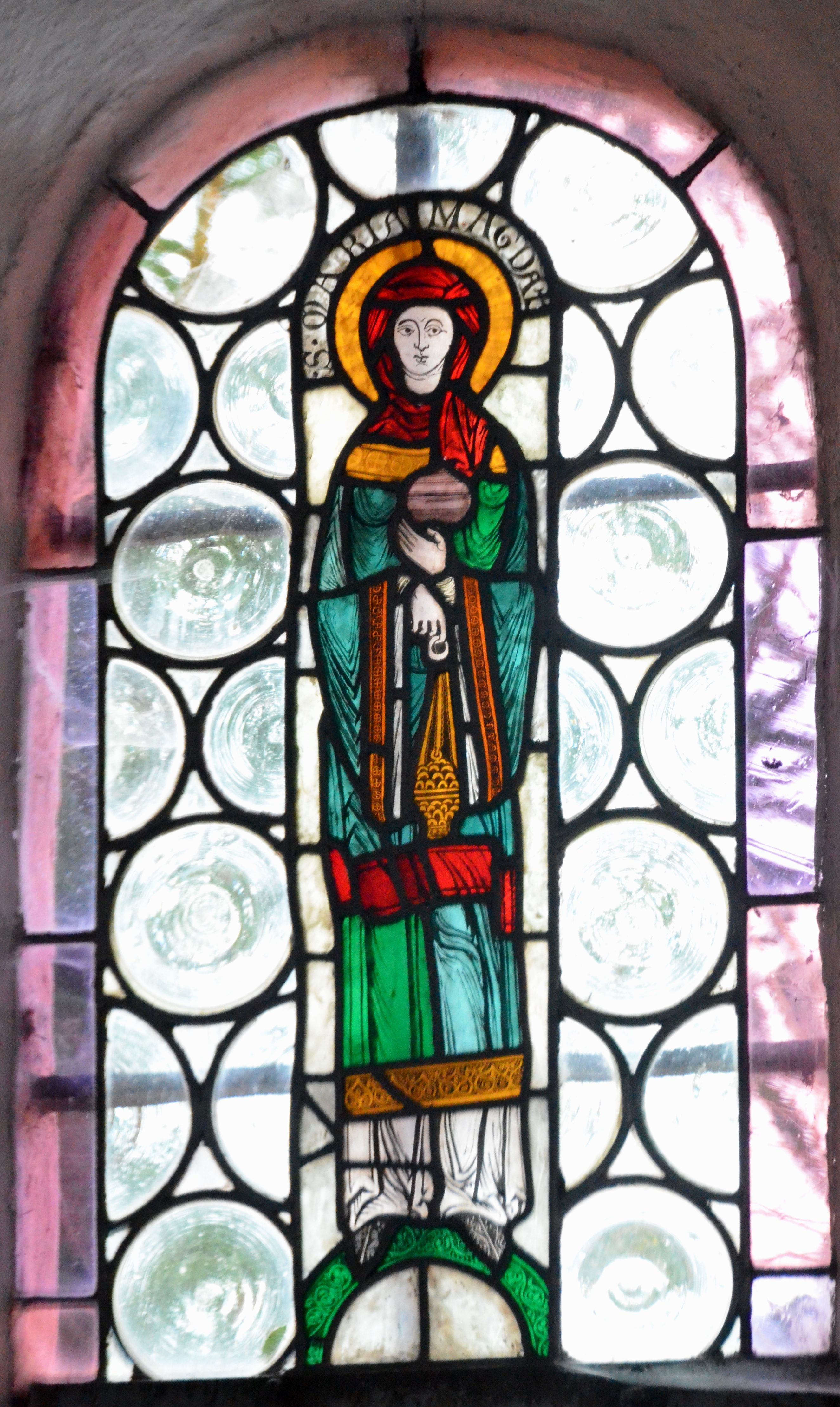 Copy of the stained glass window with Saint Mary of Magdala in the subsidiary church Saint Mary Magdalene on Magdalenenstrasse, municipality Weitensfeld, district Sankt Veit an der Glan, Carinthia, Austria, EU